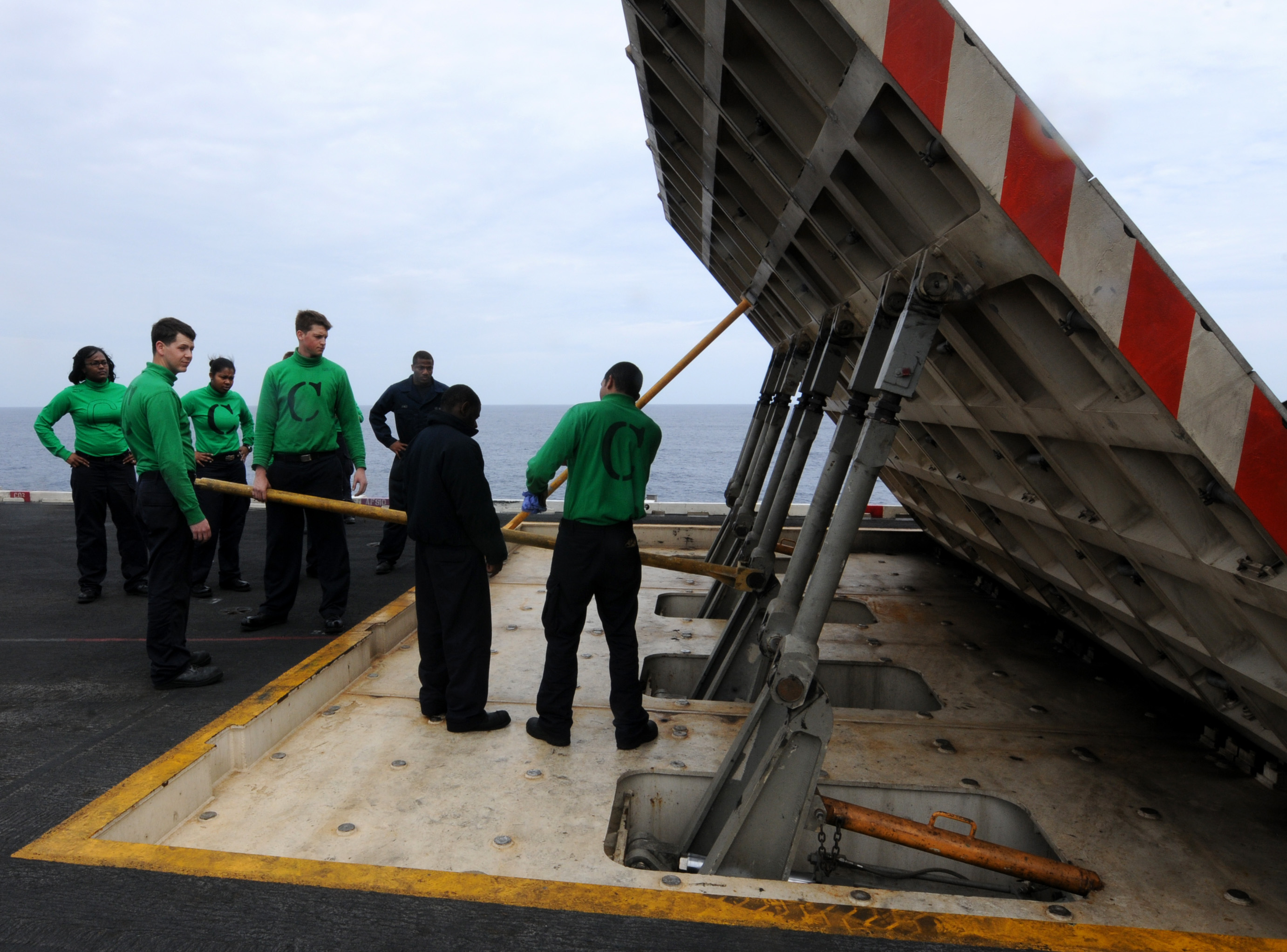 PACIFIC OCEAN (March 3, 2011) Sailors practice emergency lowering of a jet blast deflector before graded training aboard the aircraft carrier USS Ronald Reagan (CVN 76). The Ronald Reagan Carrier Strike Group is underway continuing training before deploying to the western Pacific Ocean and the U.S. Central Command area of responsibility. (U.S. Navy photo by Mass Communication Specialist 3rd Class Kyle Carlstrom/Released)